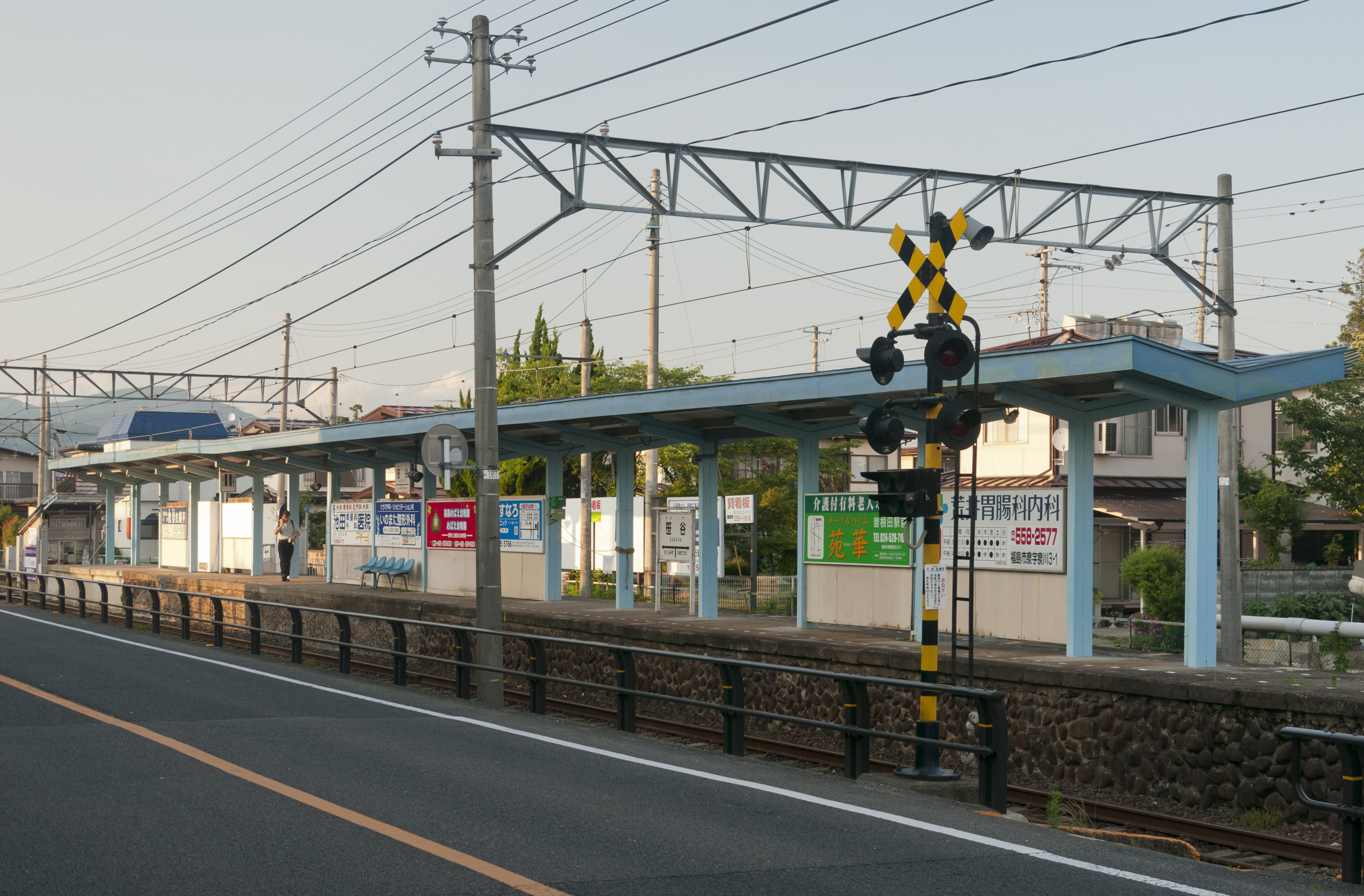 Fukushima Kotsu Iizaka Line Sasaya Station in Fukushima, Fukushima, Japan